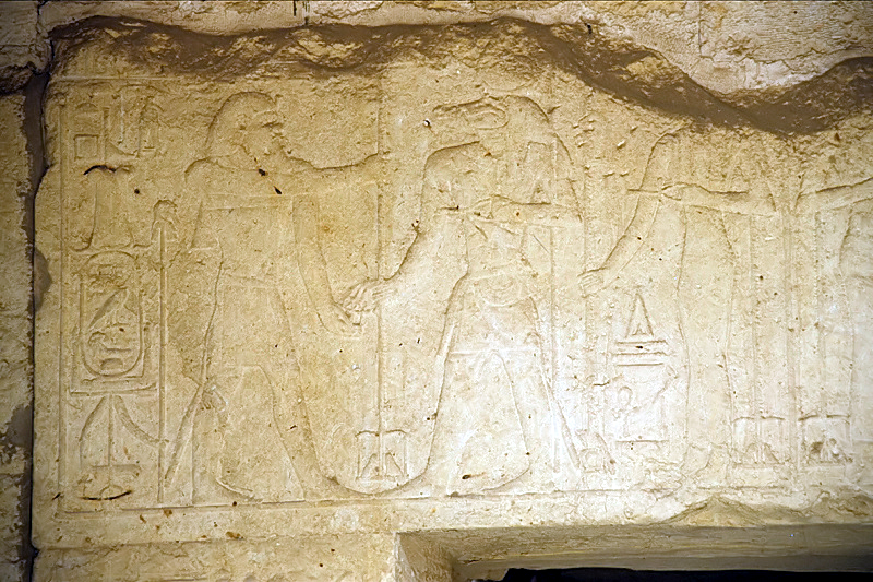 Lintel at the door to the central chapel, Temple of Renenutet, Madinat Madi, el-Fayyum, Egypt